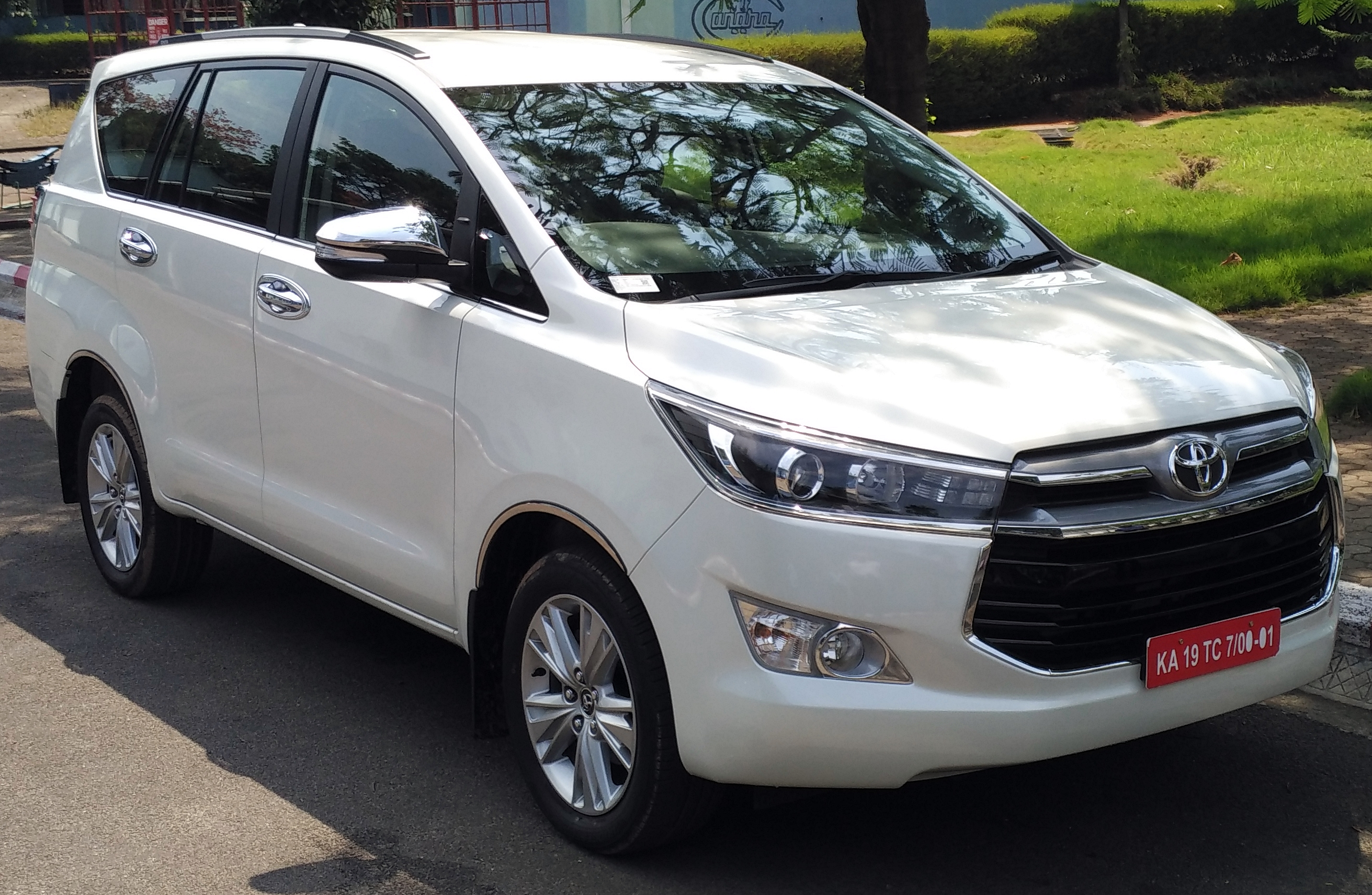 2016 new generation Toyota Innova Crysta released in the Indian market in May 2016.